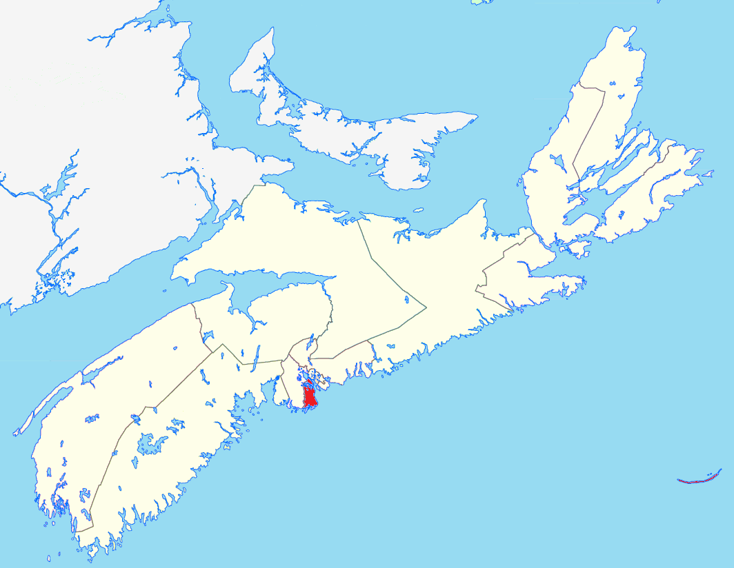 Map of Halifax